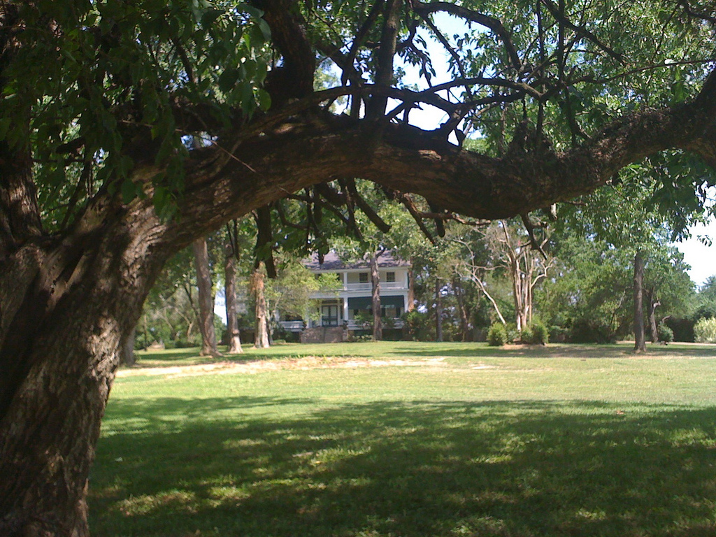 Bill Compton's House